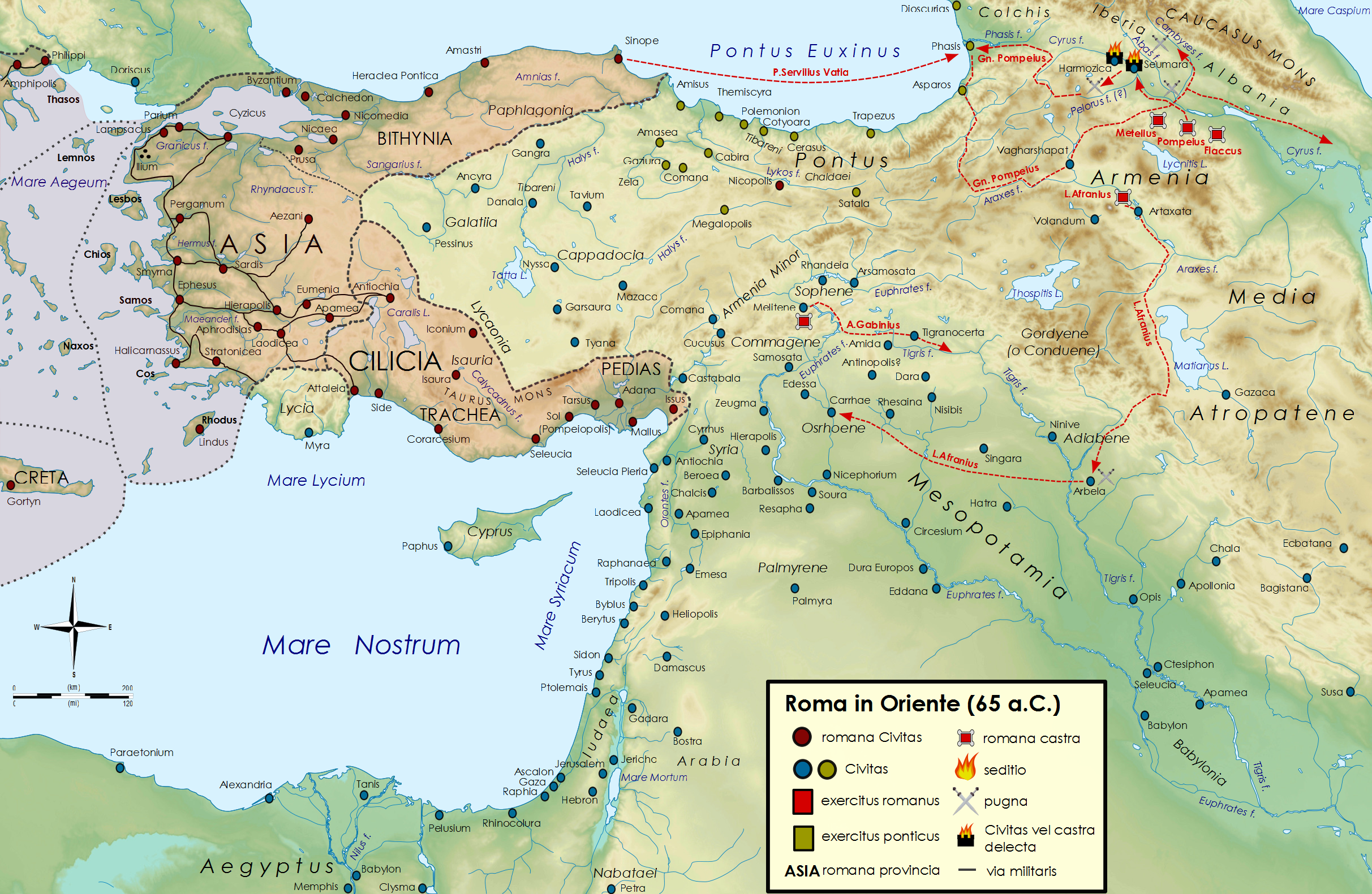 Roman republic in the Near East in 65 B.C., during the third Mithridatic War